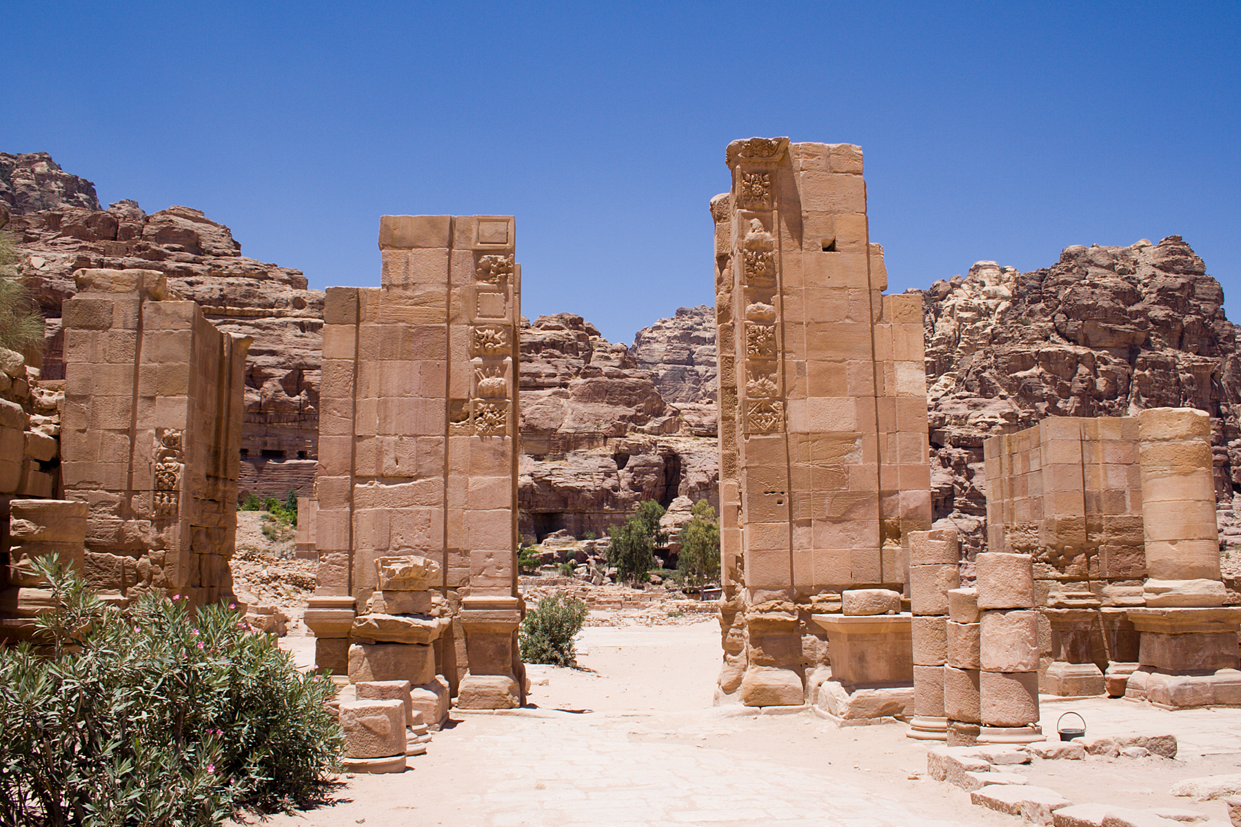 The ruins of the gate along Petra's Roman Road